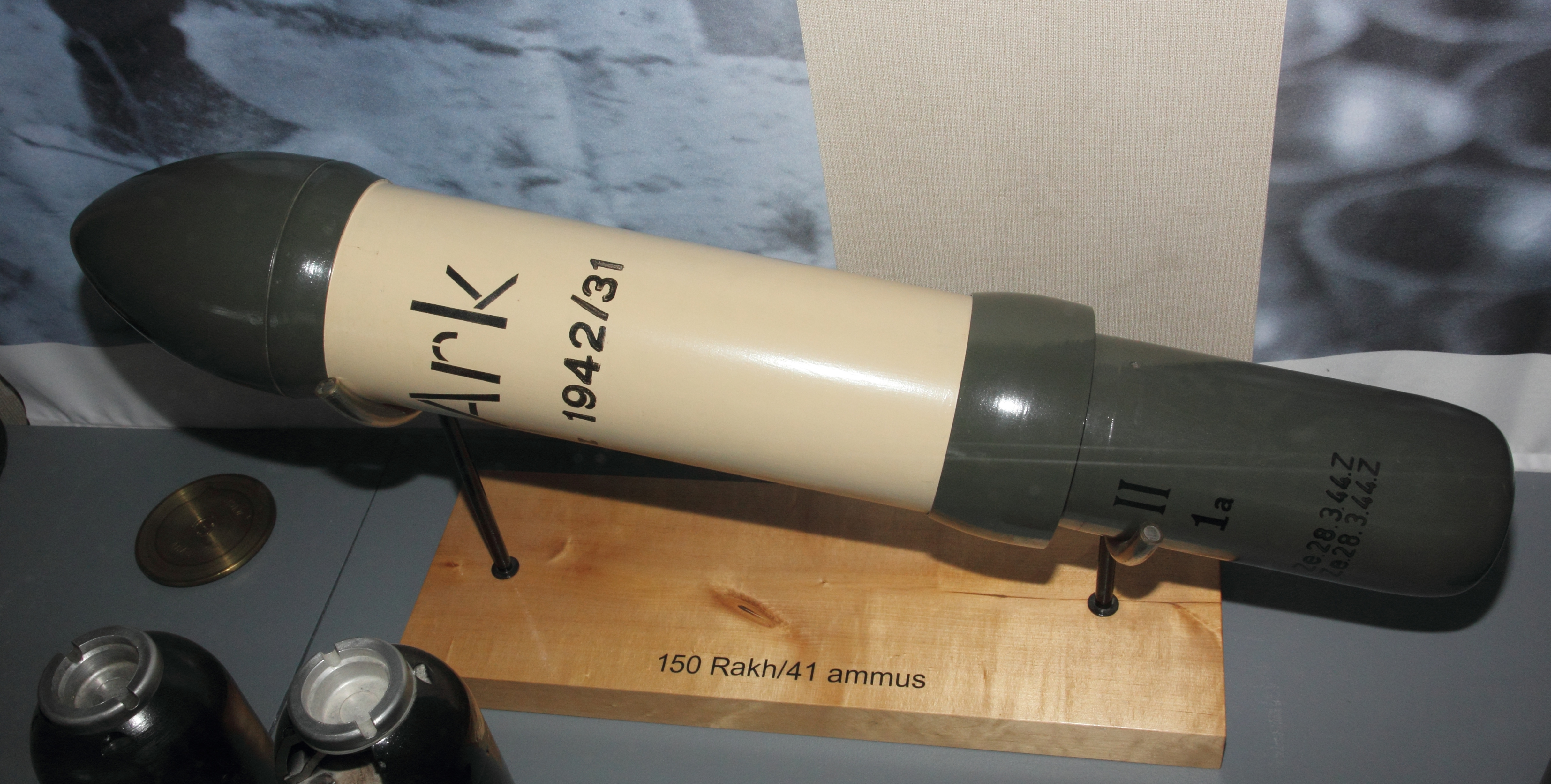 German 150 mm Nebelwerfer rocket in Hämeenlinna artillery museum.